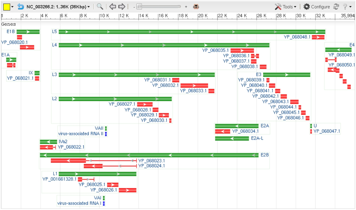 Human adenovirus E genome with transcription units shown as green bars, protein coding genes shown as red bars, and non-protein coding genes shown as blue bars, from NCBI entry on human adenovirus E.